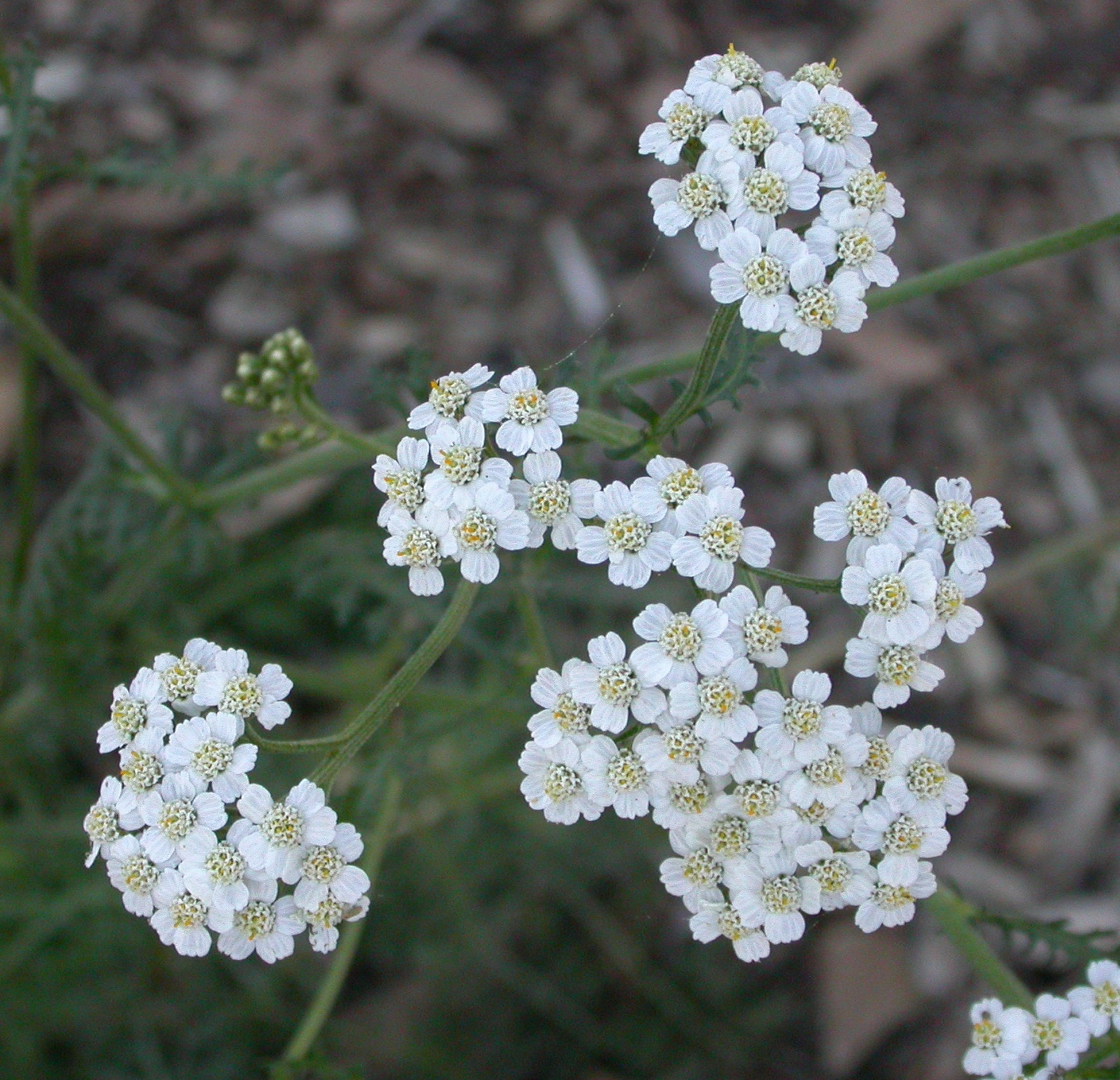 Photographed at BioTrek. Contributed and © by Curtis Clark. Licensed as noted.